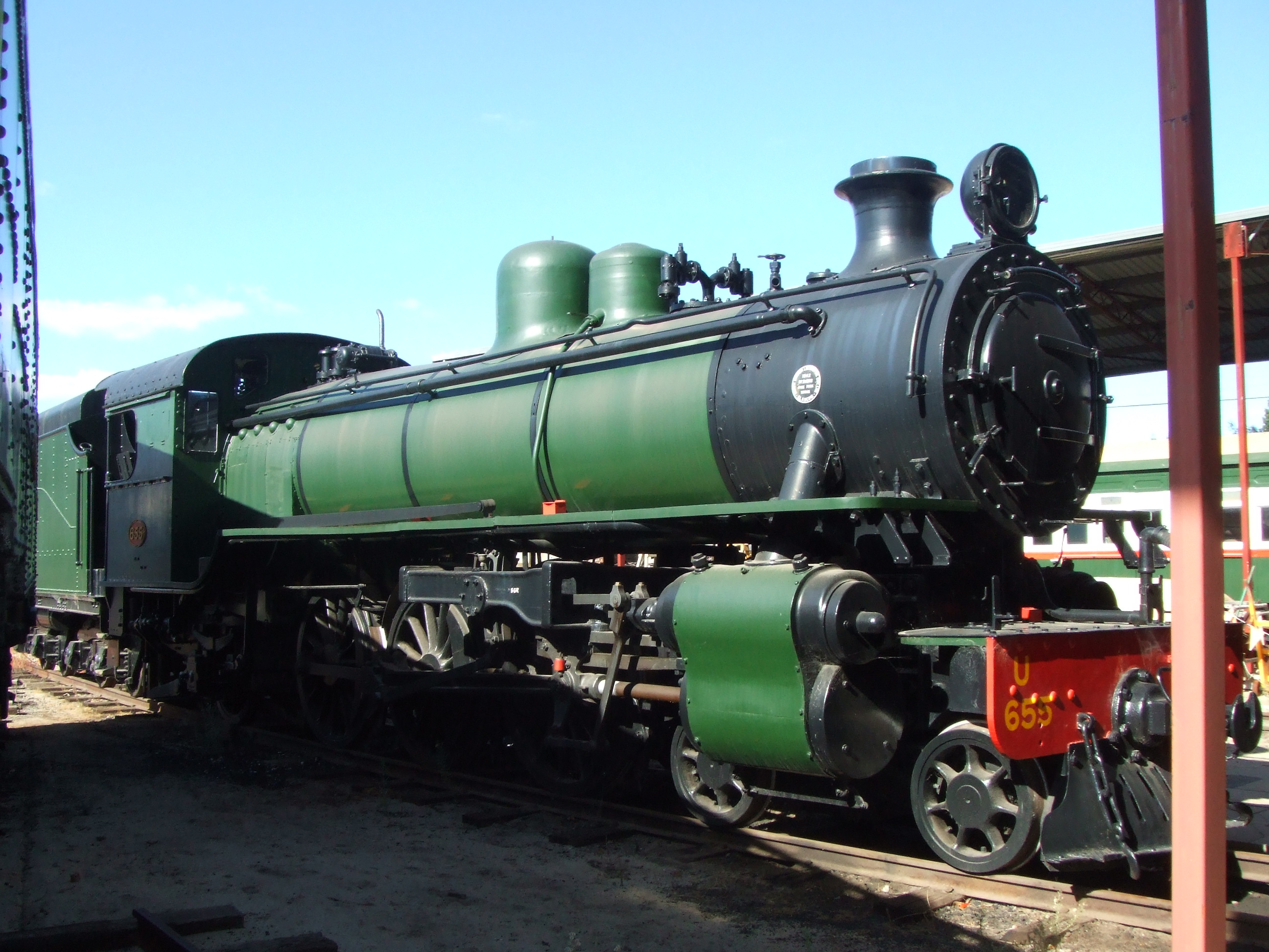 Western Australia Government Railway "U" 4-6-2 No,655 (North British 24863/1943). Standard M.o.S. "Austerity" Pacific for 3'6" gauge lines in North Africa & Middle East. This loco was allocated to Sudan Railways but in the event stored until bought by WAGR in 1946. Proved a highly successful design and very popular on the WAGR. At the Bassendean Railway Museum, Perth, 4/06.